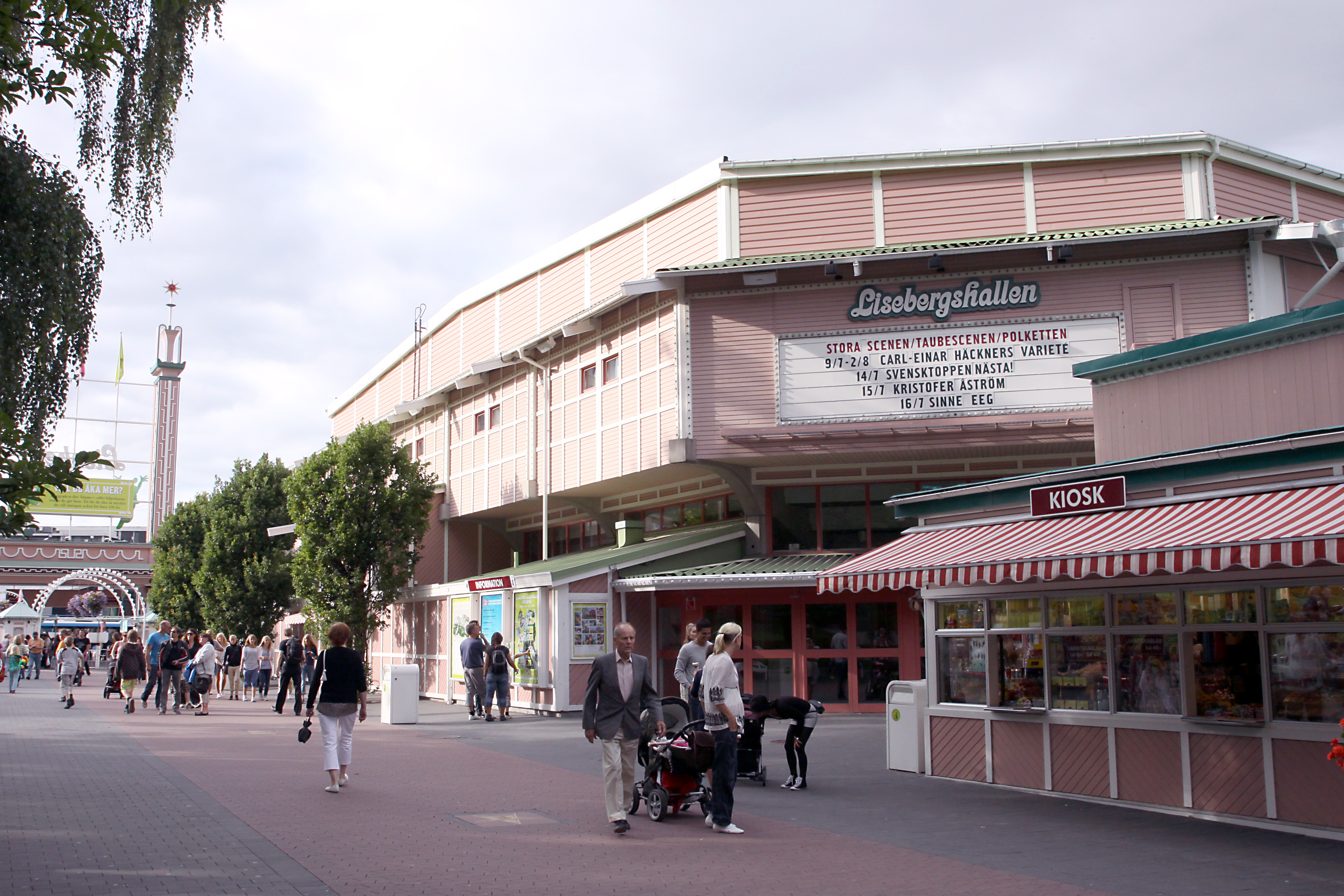 The arena and concert hall Lisebergshallen in Gothenburg, Sweden